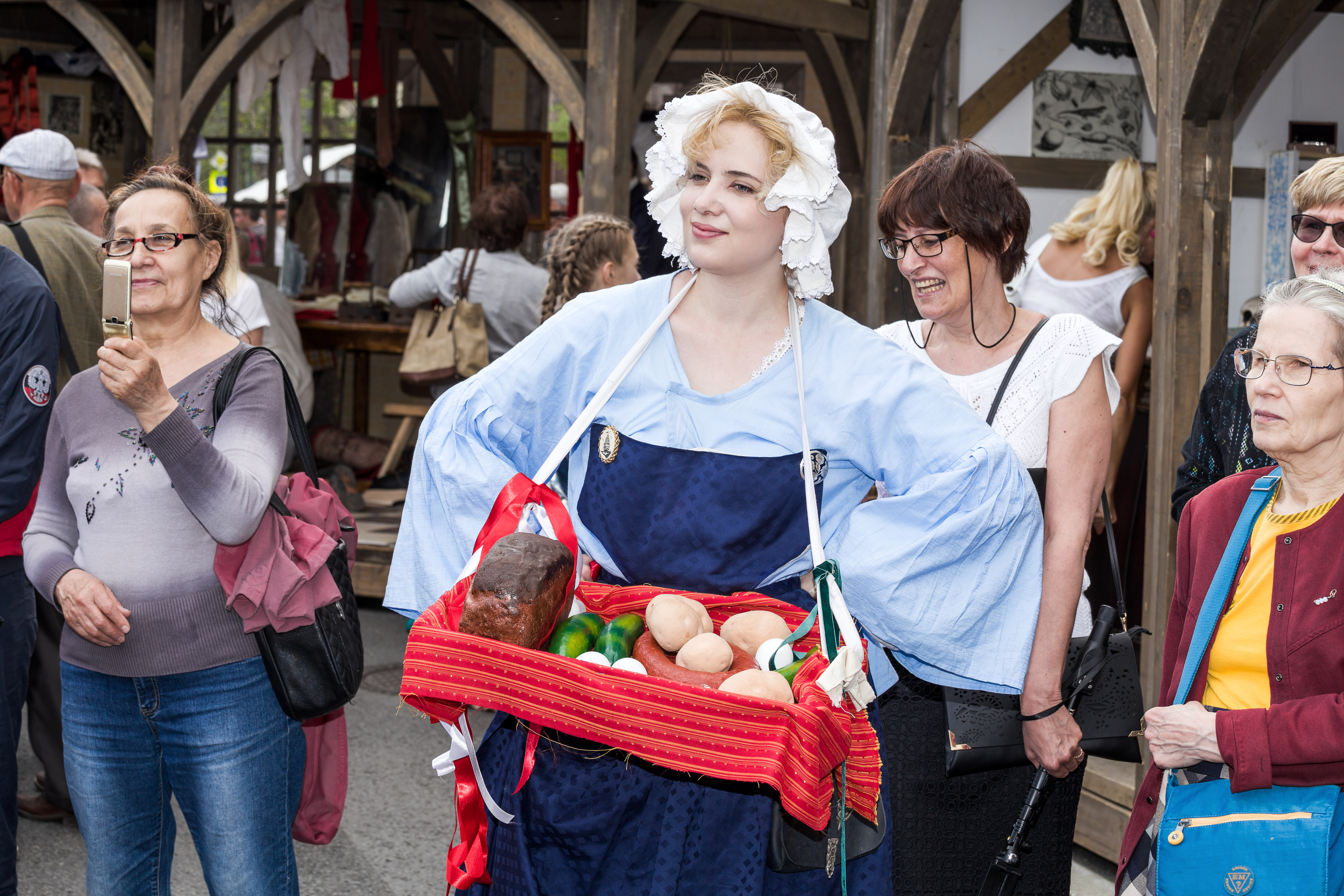 Reconstructors and roleplayers perform at the festival «Times and epochs». Moscow, Tverskaya square.